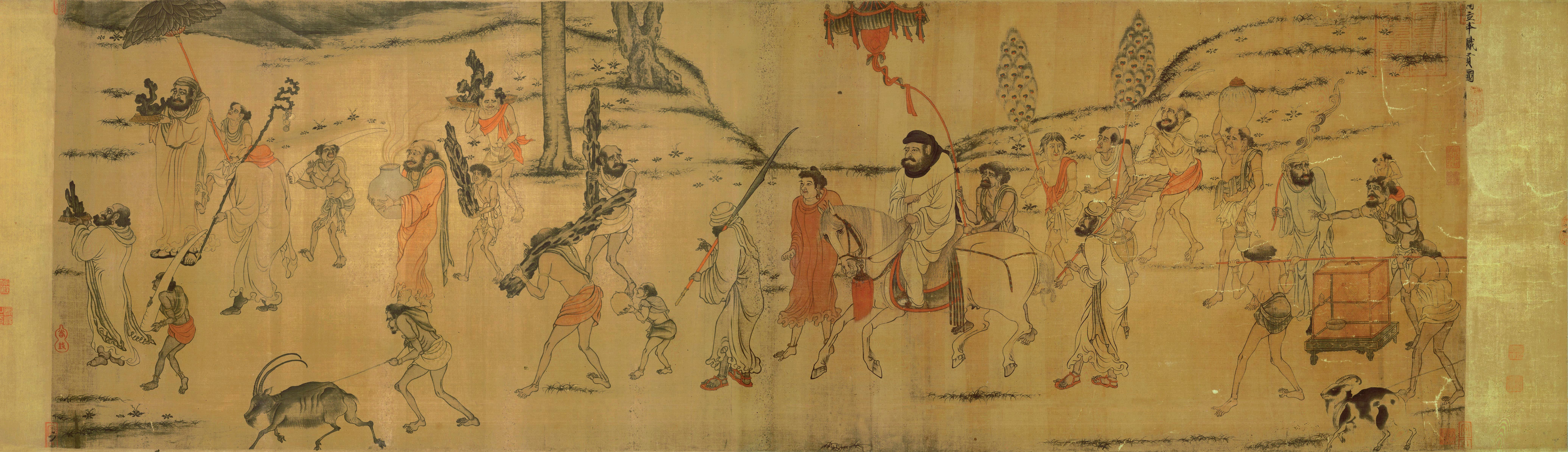 Tribute Bearers by Yan Liben and Yan Lide. National Palace Museum, Taipei. Song copy of the Tang scroll.